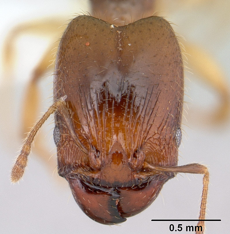 Head view of ant Pheidole subarmata specimen casent0178060.